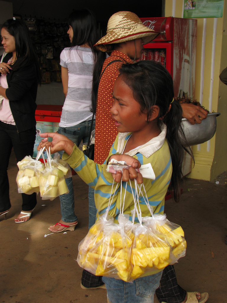 A woman vendor selling bags of cut pineapple to travellers at a bus station, Kampong Thom, Cambodia. A common sight in South East Asian transit stations.